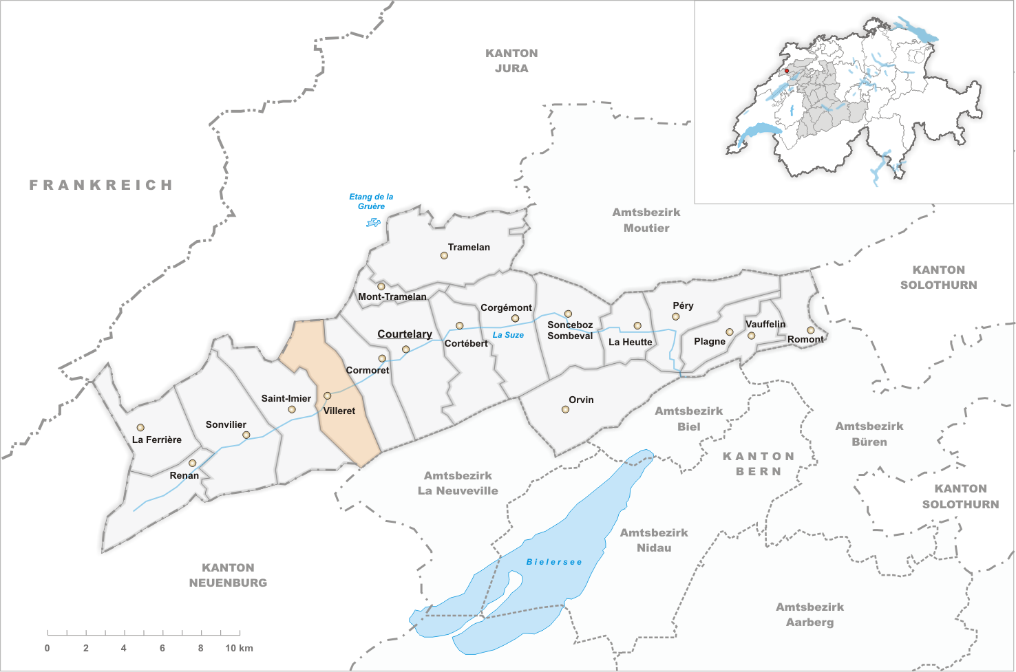 Municipality Villeret